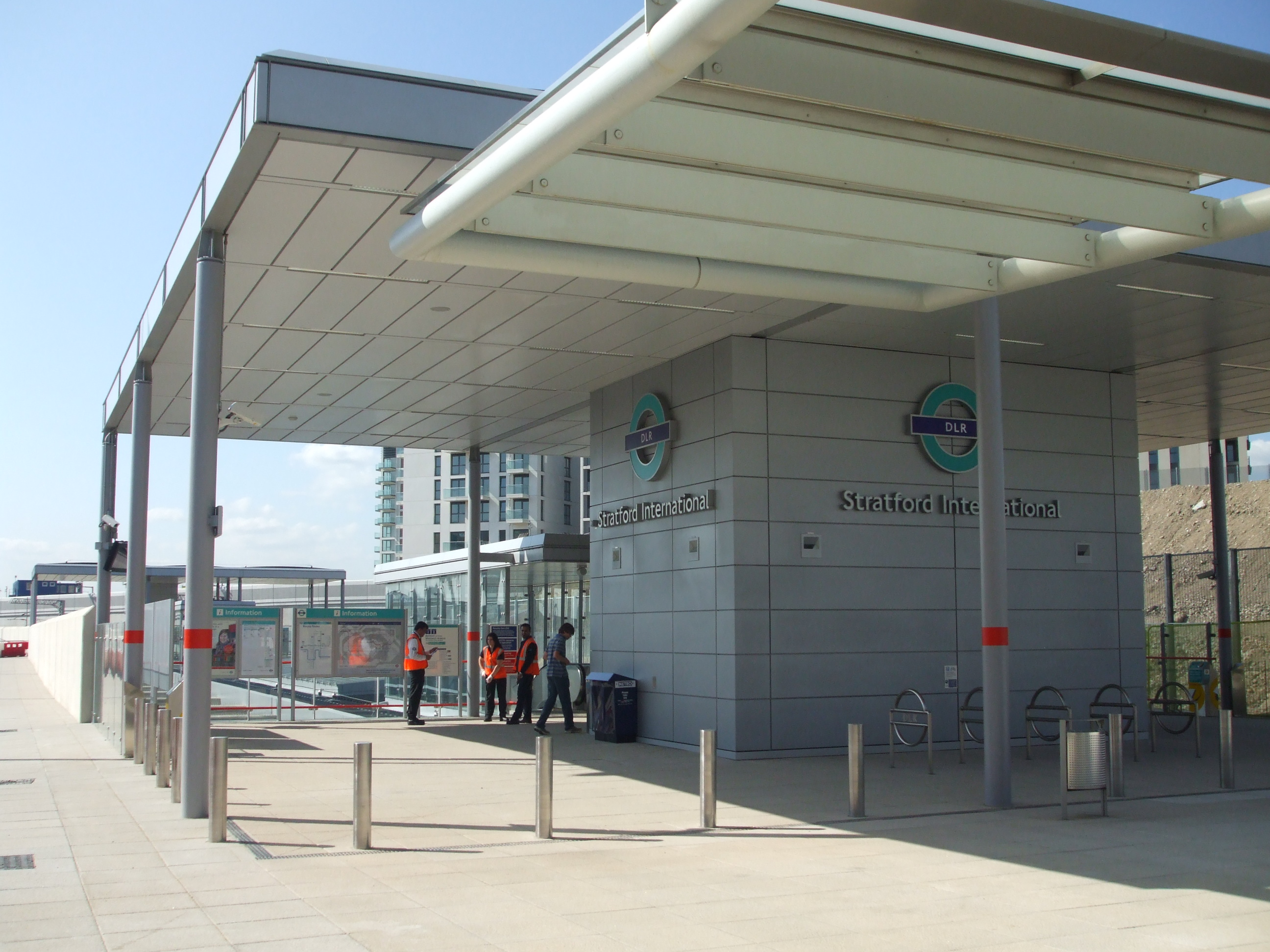 Stratford International DLR station eastern entrance, soon after opening, across the road from the High Speed main line station